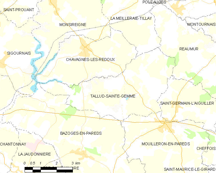 Map of French municipality Tallud-Sainte-Gemme